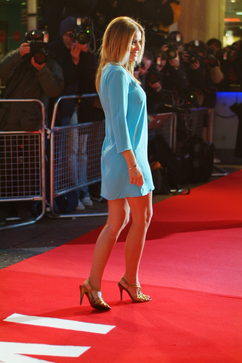 Carmen Electra at I want Candy London Movie Premiere.